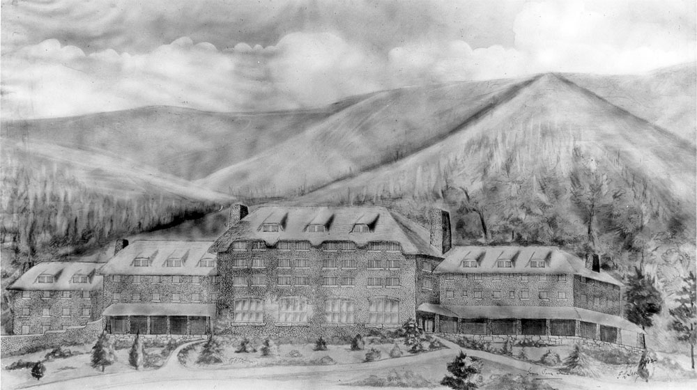 Sketch of the exterior of the Grove Park Inn, as envisioned by Fred Loring Seely, son-in-law of eponymous Edwin Wiley Grove, founder of the Grove Park Inn. Image courtesy of the University of North Carolina at Asheville.